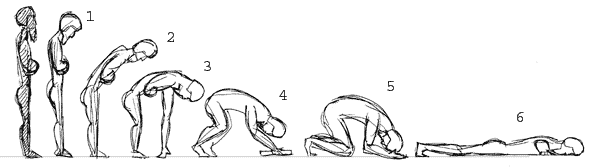 Different kinds of bows in Eastern Orthodoxy.